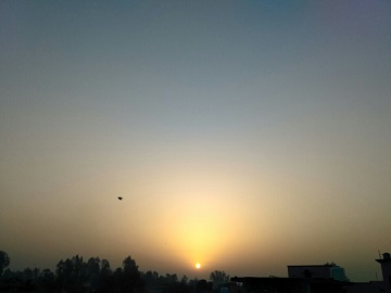 FatehpurNarayanSunRise